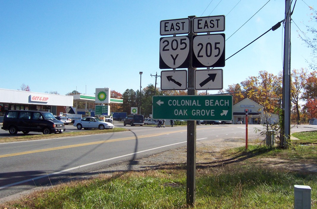 Virginia State Route 205 and 205Y in Colonial Beach, Virginia, in the United States.